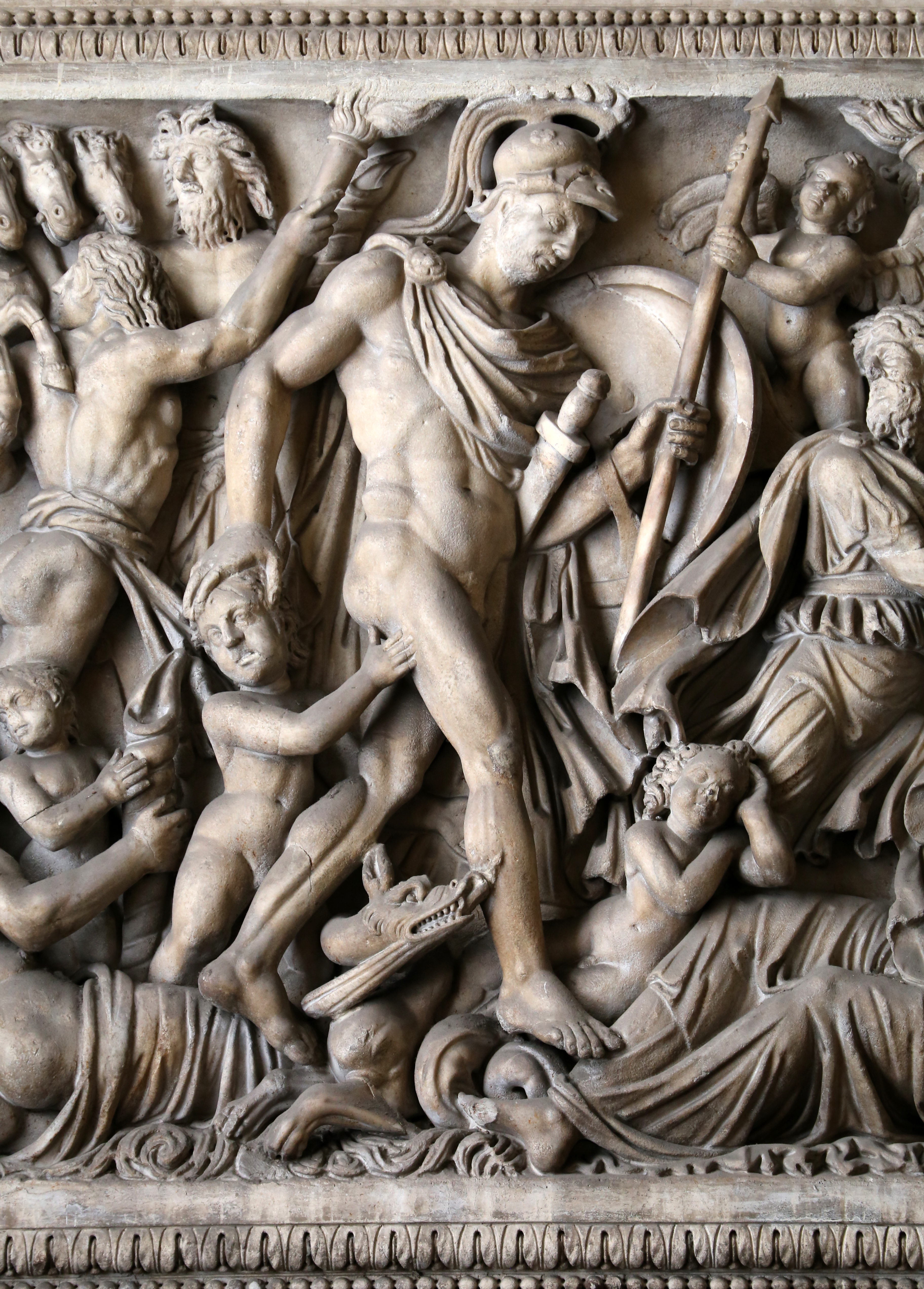 Sarcophagus of Mars and Rhea Silvia (Mattei I and II)